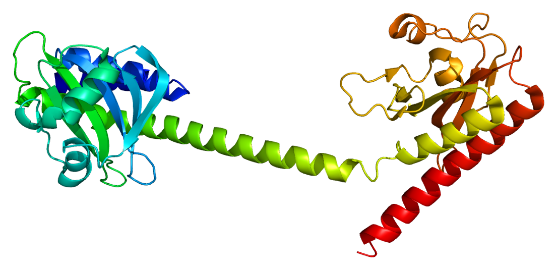 Structure of the PDE2A protein. Based on PyMOL rendering of PDB 1mc0.